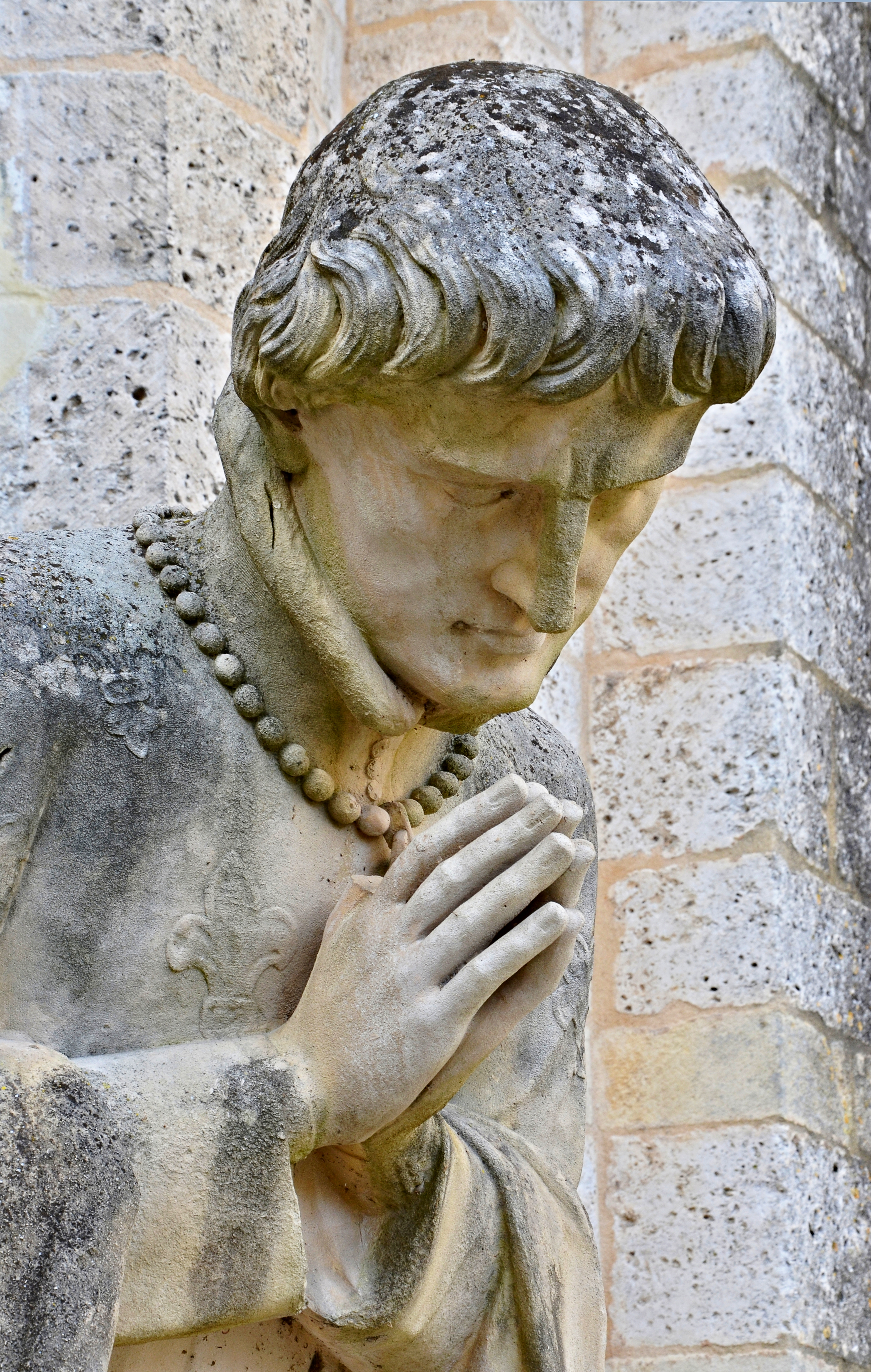 Statue (1876) of Jean d'Orléans, count of Angoulême (1399-1467), by Gustave-Louis Gaudran (detail), behind the apse of the cathedral, Angoulême, Charente, France.